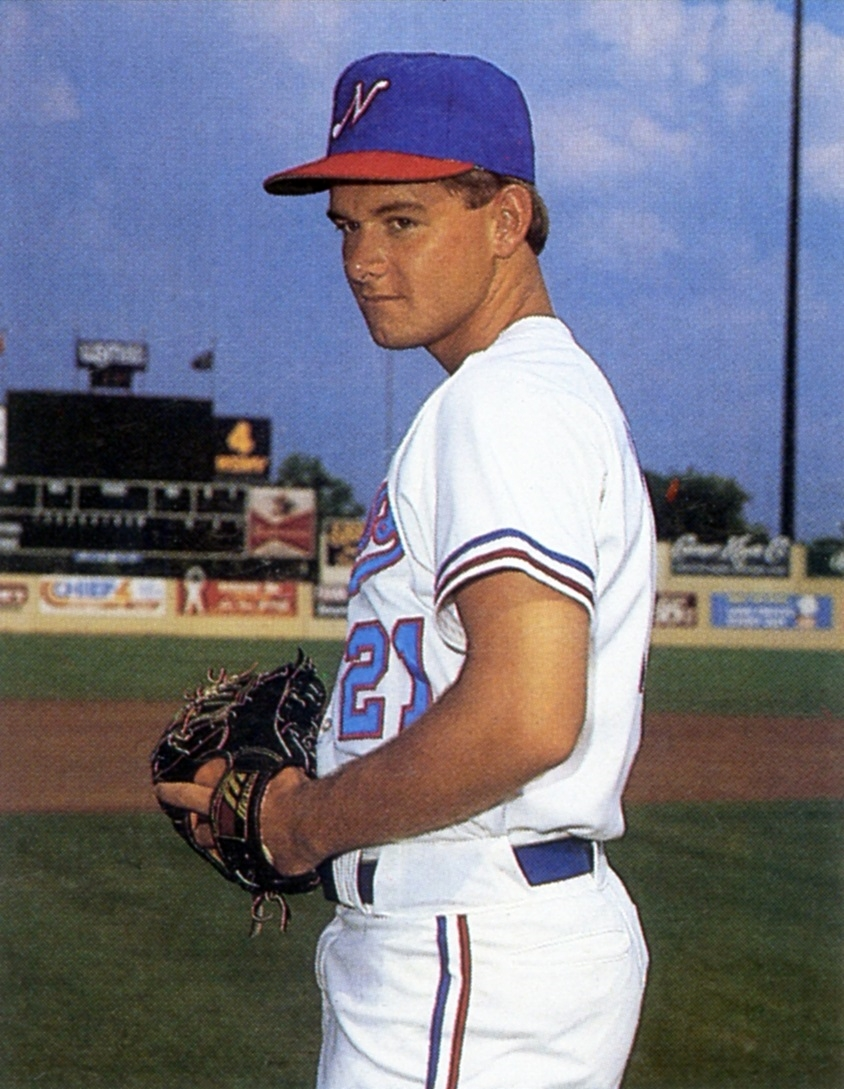 Pitcher Jeff Gray of the 1987 Nashville Sounds Minor League Baseball team of the American Association